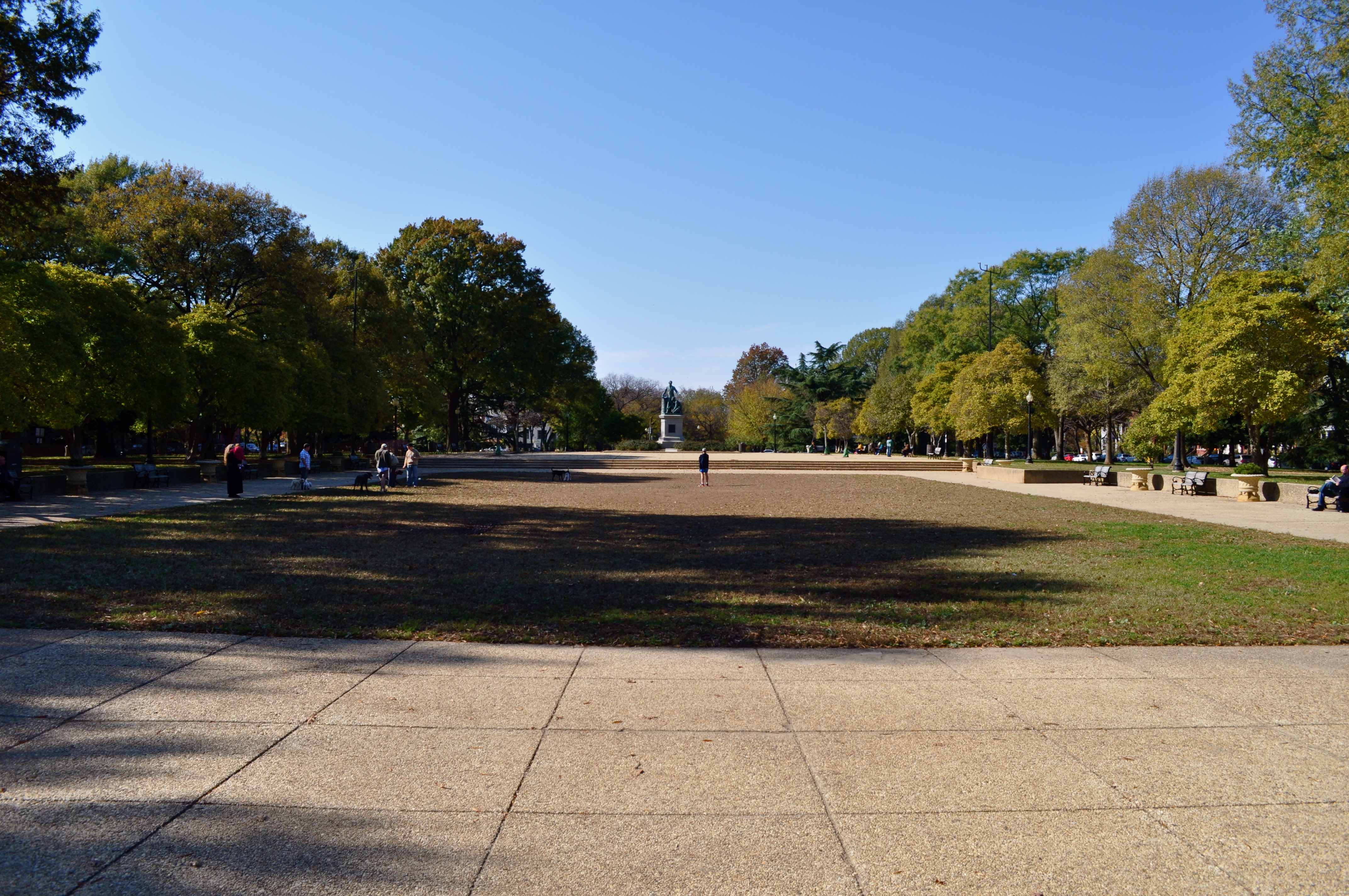 Lincoln Park looking west from Mary McLeod Bethune Statue